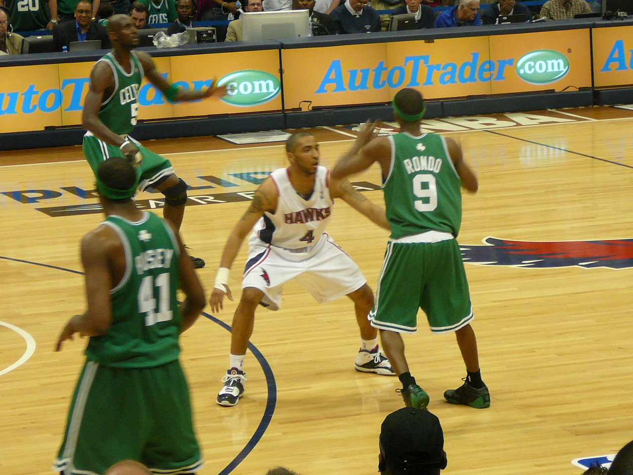 User:Chrisjnelson agreed to license this image of Acie_Law_Rajon_Rondo.jpg under a free attribution license. Any use of this image must be attributed; this means that Photo by :en::en:User:Chrisjnelson|Chris Nelson should be in the picture caption.